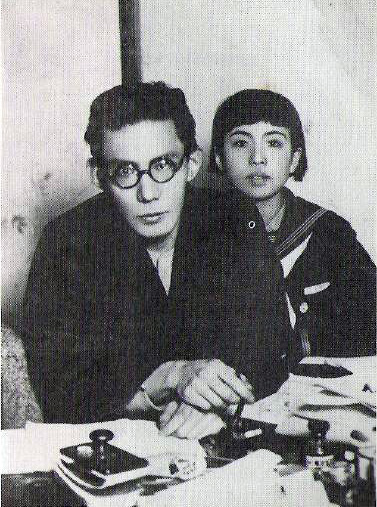 Japanese author Mushitaro Oguri (1901-1946) and daughter.